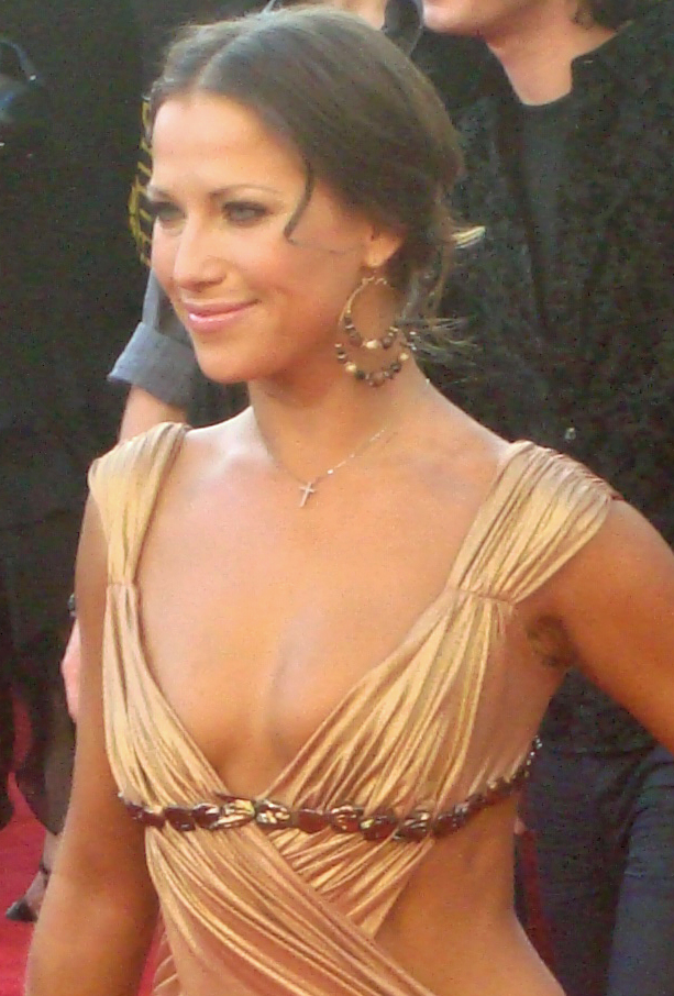 Edyta Śliwińska on the red carpet of the 2009 American Music Awards.